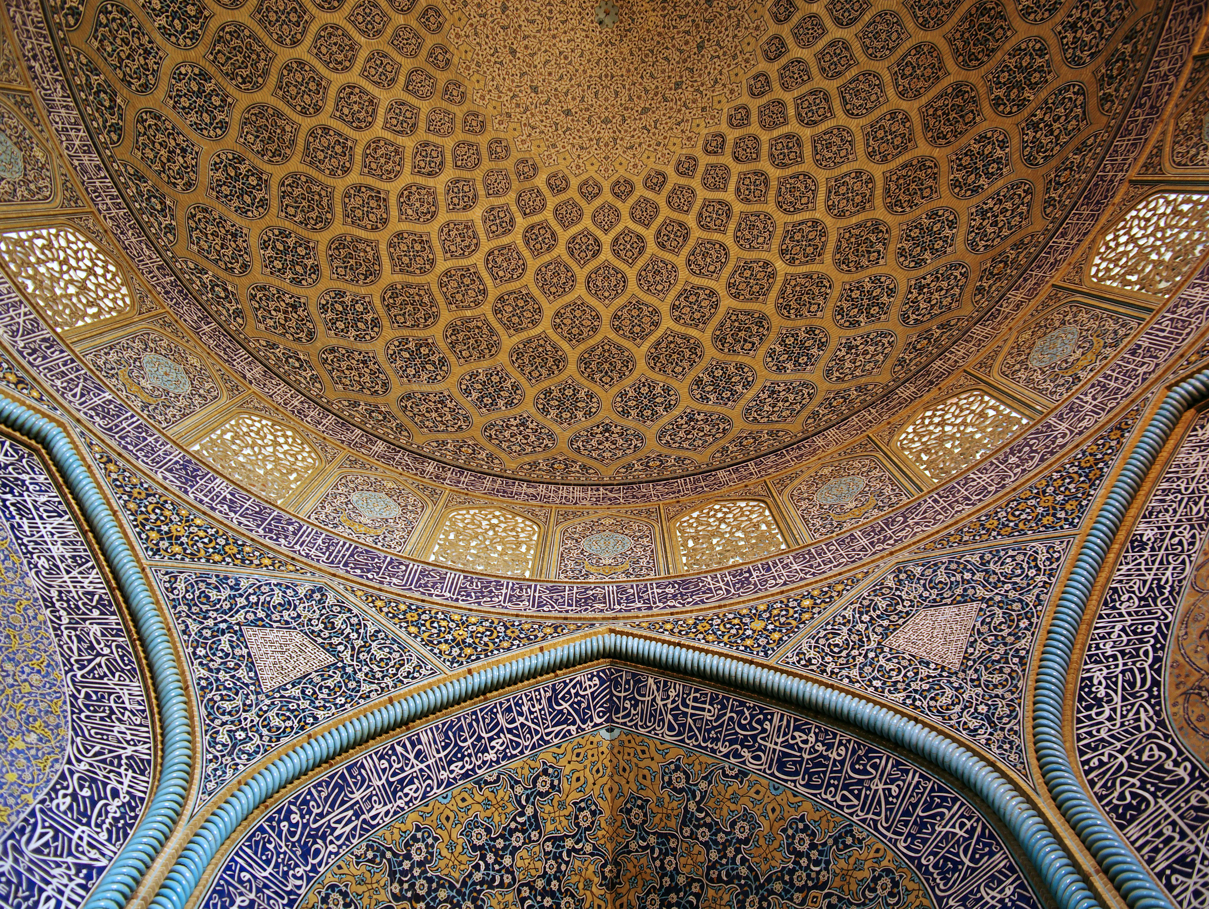 Interior wall and ceiling of the Sheikh-Lotf-Allah mosque in Isfahan, Iran (panorama)